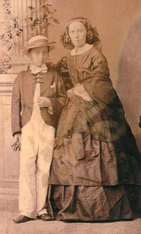 Edward Woynillowicz (1847–1928), leader of Minsk agricultural society